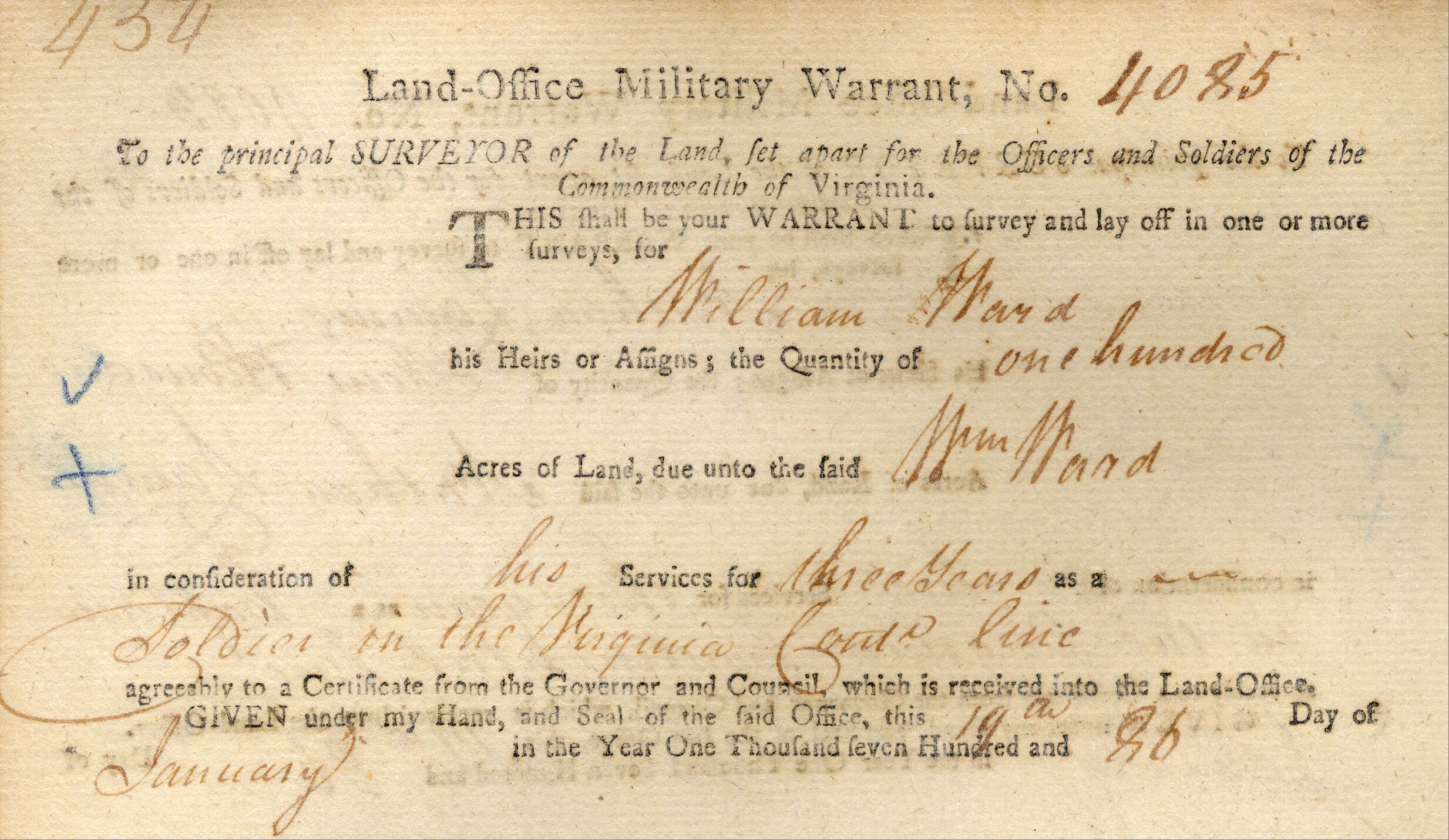 A scan of military warrant #4085 issued to William Ward for three years service on the Virginia Continental Line during the American Revolutionary War